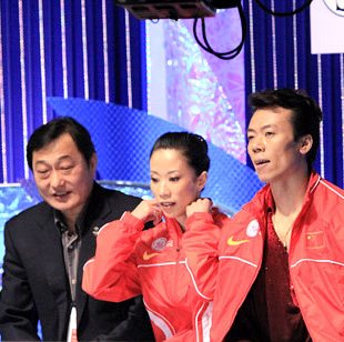 Shen Xue, Zhao Hongbo and their coach Yao Bin at the 2009-2010 Grand Prix of Figure Skating Final.